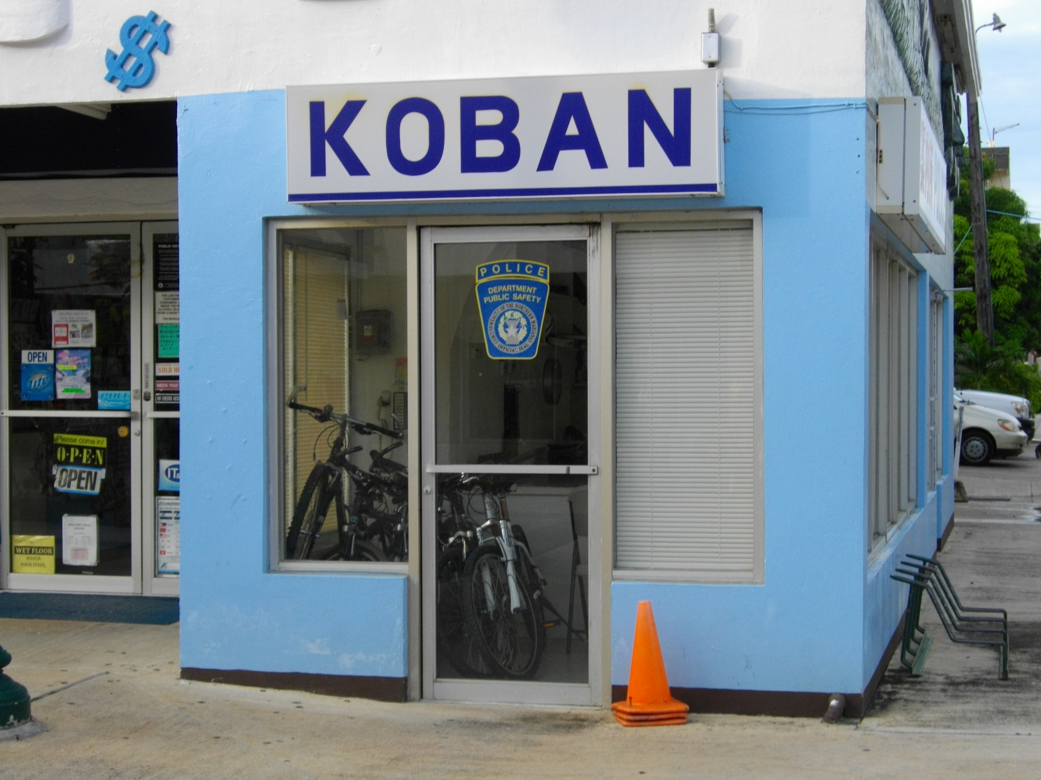 Paseo de Marianas Koban (Police Box)